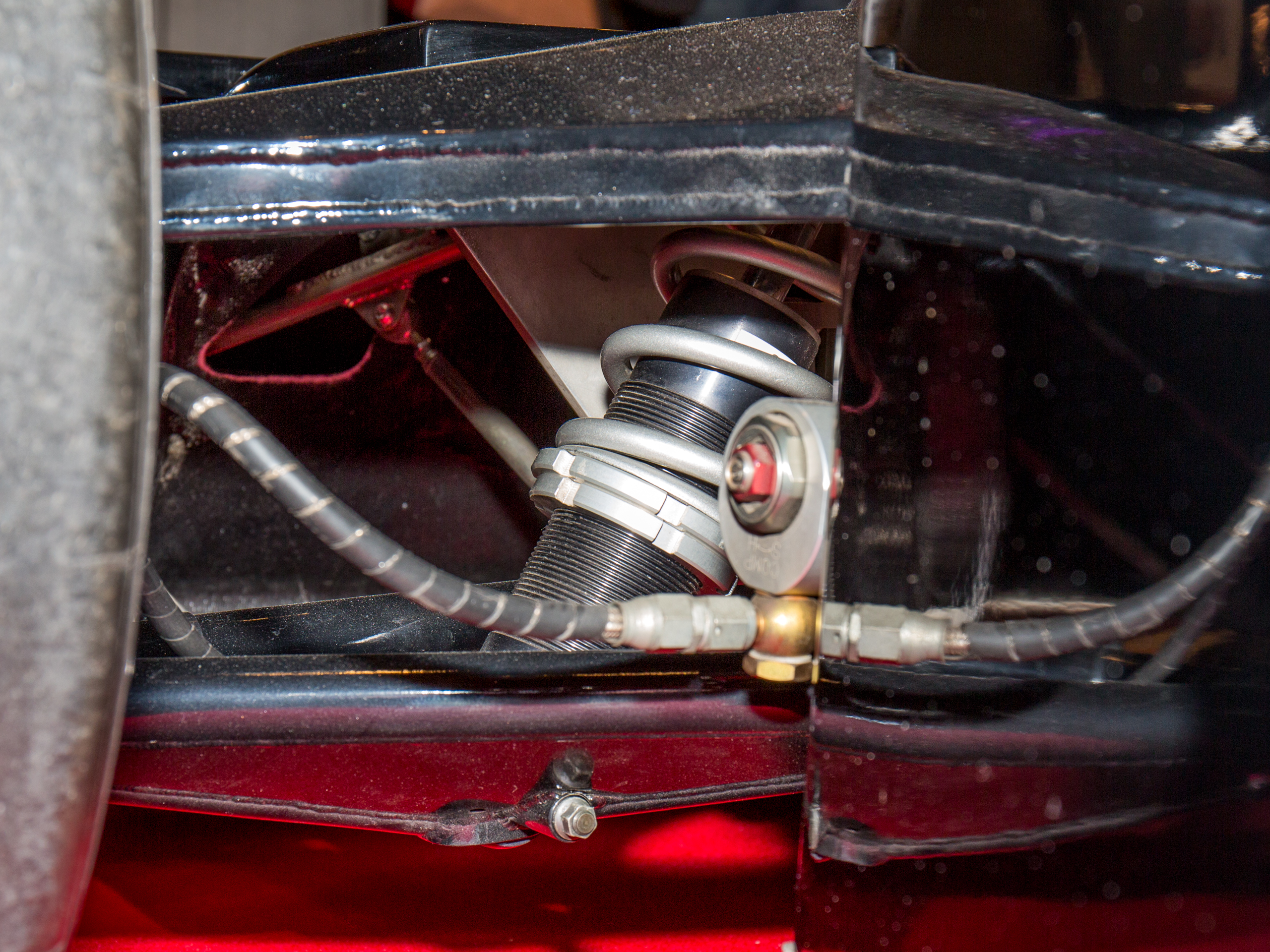 Kojima KE007